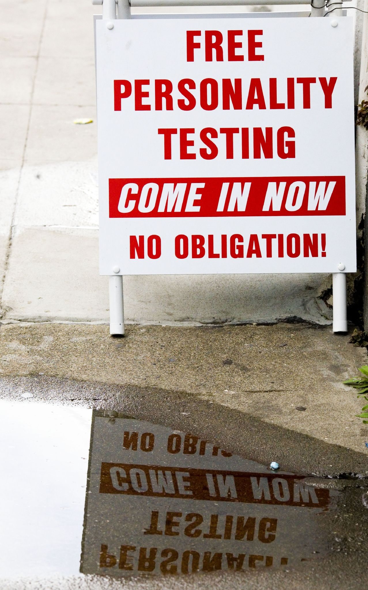 Scientology - "Free personality testing" sign. Howard Street, San Francisco, April 4, 2006. Uploaded by User:ChrisO.